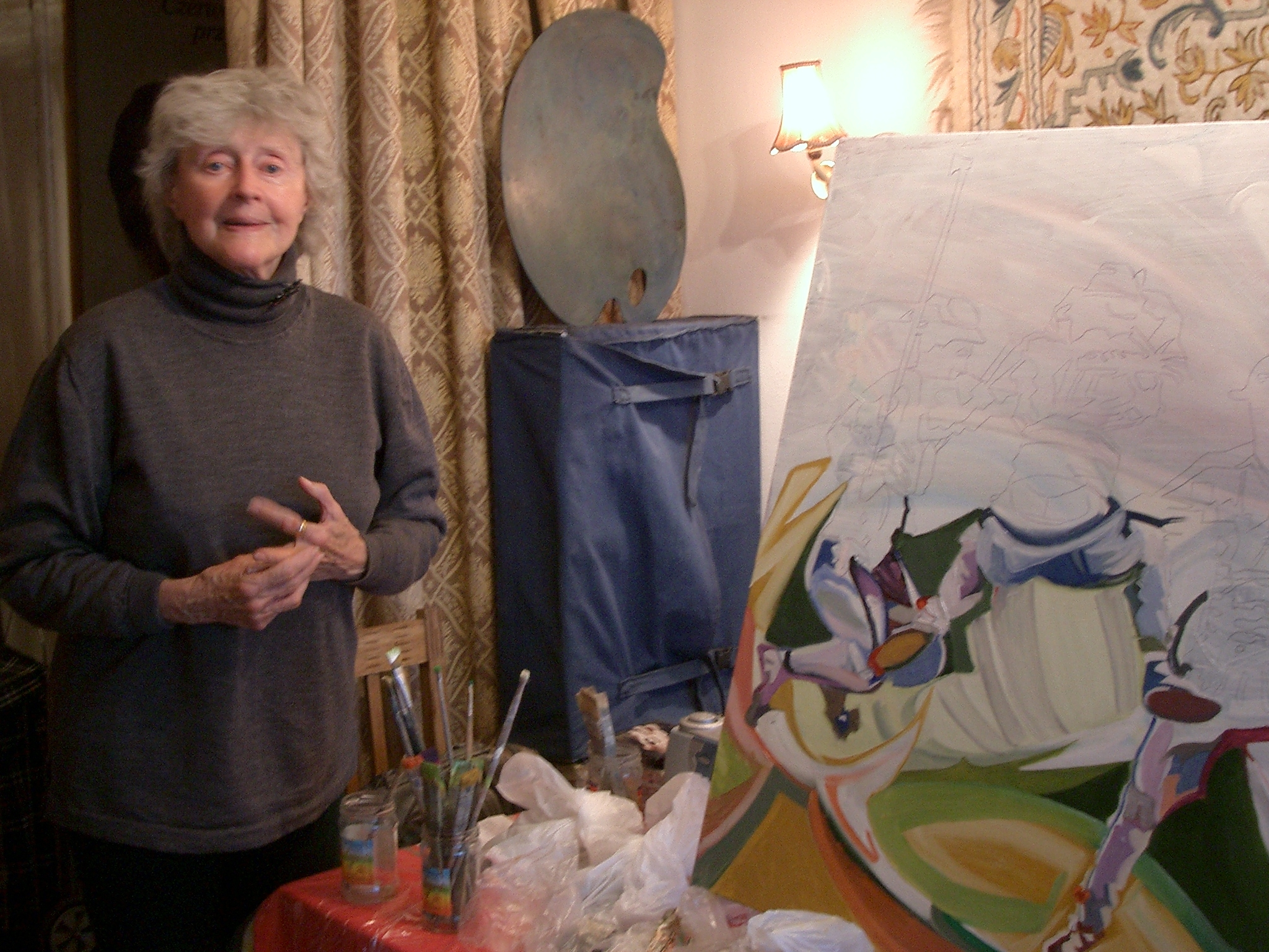 Anna Staniszewska working